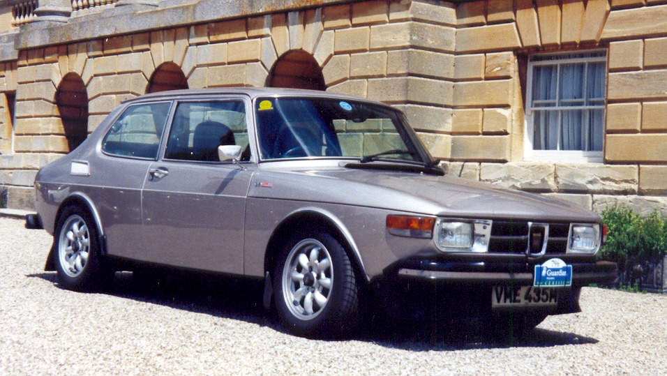 Saab 99 EMS 1974 (UK Spec) (del) (cur) 21:11, 17 April 2006 . . Ballista (Talk) . . 956x539 (374386 bytes) (my own photo)